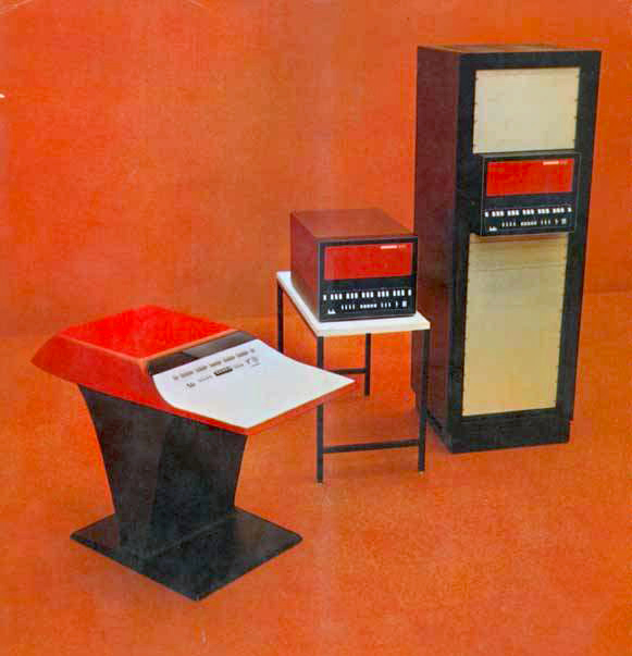 Crop from page of Promotional brochure for the Honeywell 316 minicomputer (including the "kitchen computer" and rack mount versions)